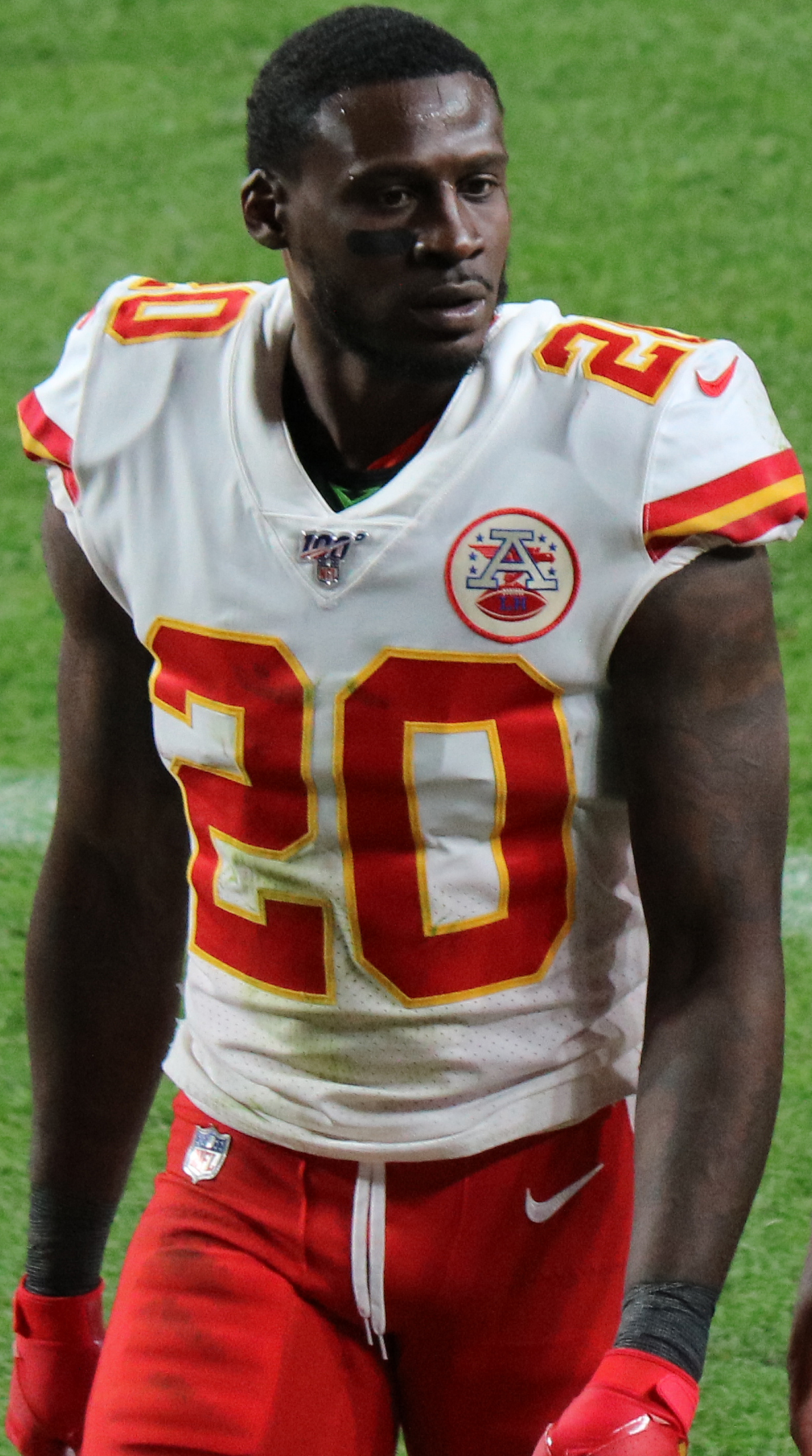 Morris Claiborne, a National Football League player.